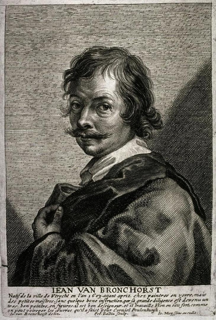 Engraving of Jean van Bronchorst (1603-1661), (after his drawn self-portrait ).